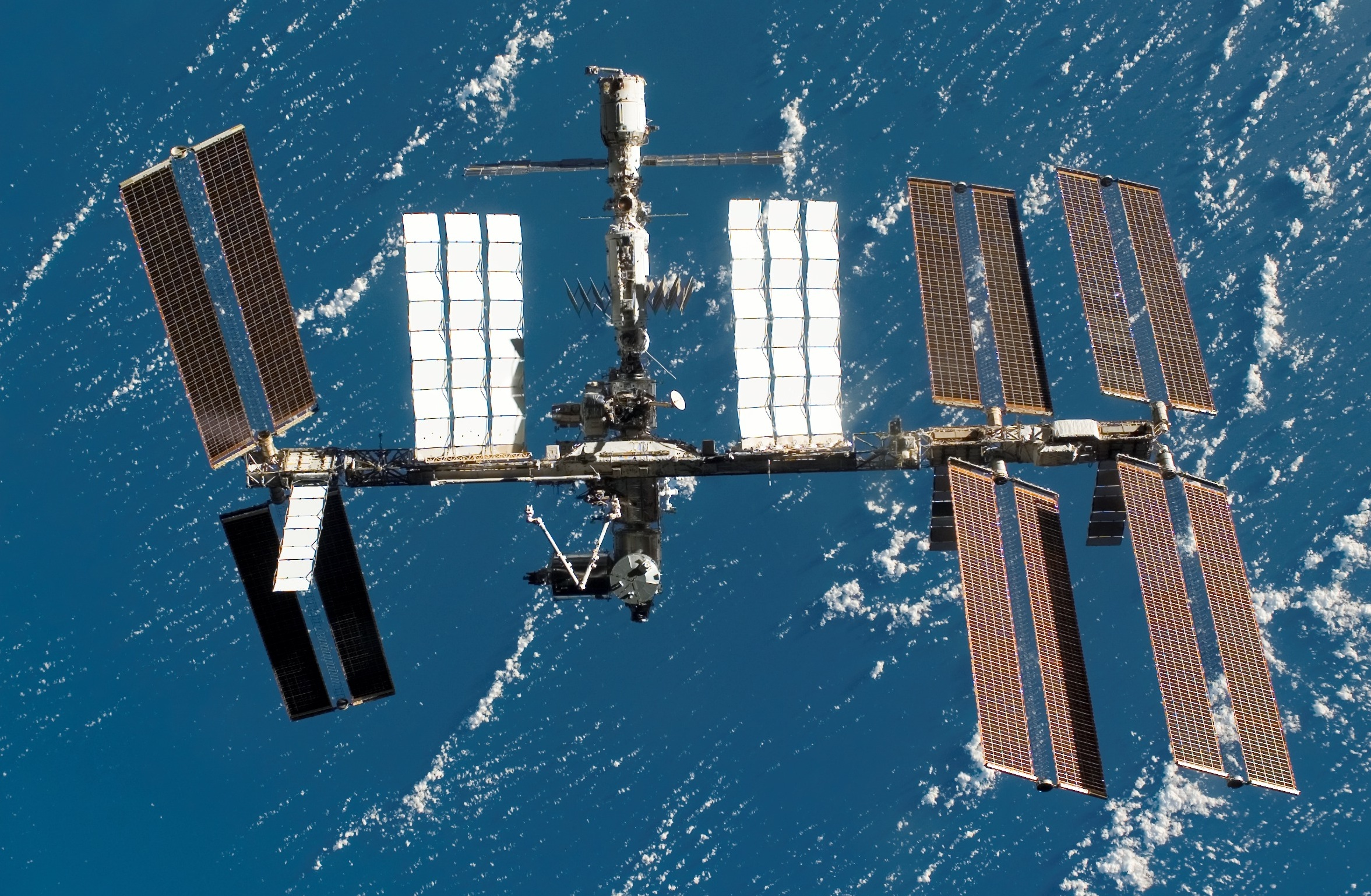 Backdropped by a blue and white part of Earth, the International Space Station is seen from Space Shuttle Endeavour as the two spacecraft begin their relative separation. Earlier the STS-123 and Expedition 16 crews concluded 12 days of cooperative work onboard the shuttle and station. Undocking of the two spacecraft occurred at 7:25 p.m. (CDT) on March 24, 2008.